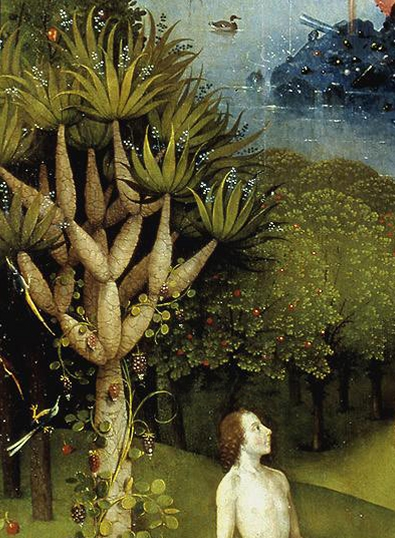 The Garden of Earthly Delights - detail